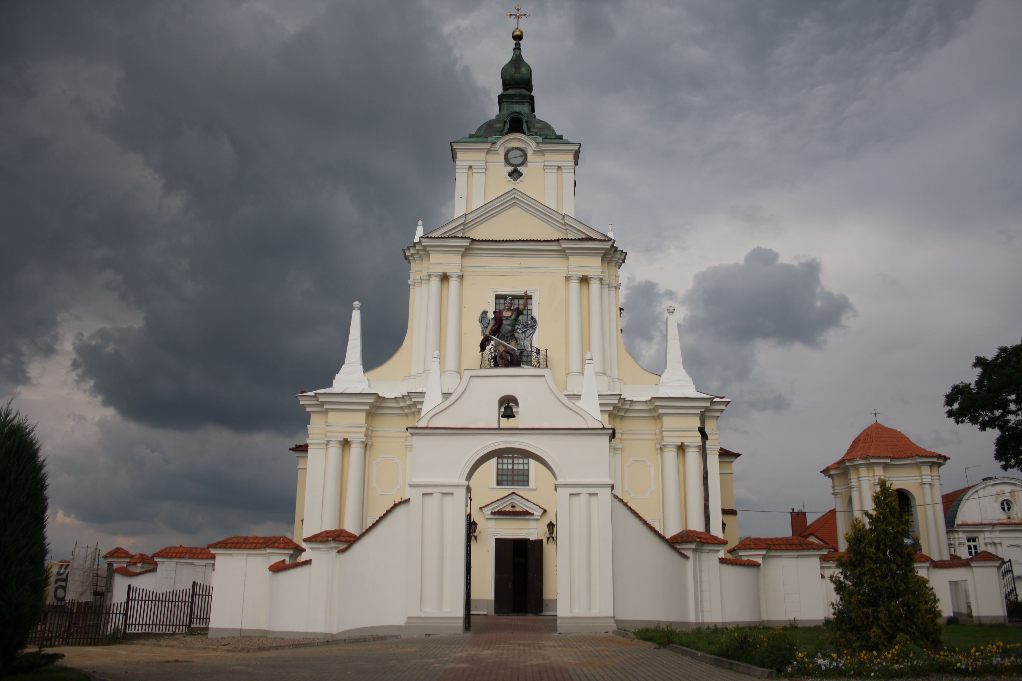 Siemiatycze (Podlasie Voivodeship), Church of Ascension Virgin Mary